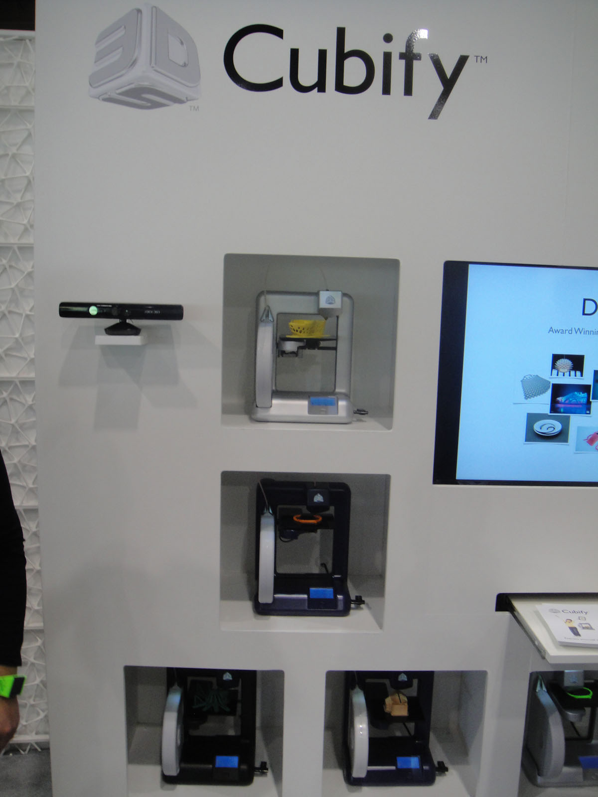 photo 2012 Pop Culture Geek taken by Doug Kline If you're interested in higher resolution versions of my images, contact me via my profile page.